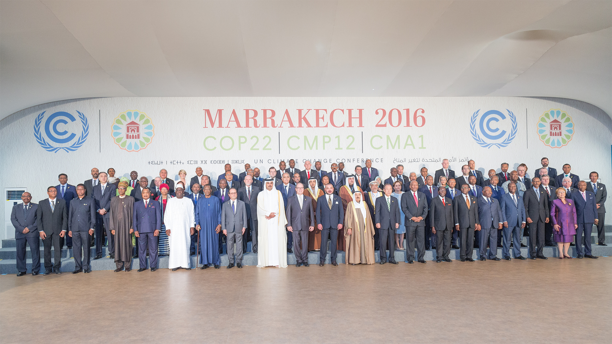 Family photo. In the presence of in the presence of His Majesty King Mohammed VI of Morocco approximately 80 Heads of State and Government attending the Marrakech Climate Change Conference posed for a group photo.